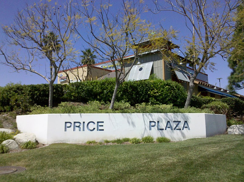 Carmel Mountain Price Plaza — in San Diego, California.